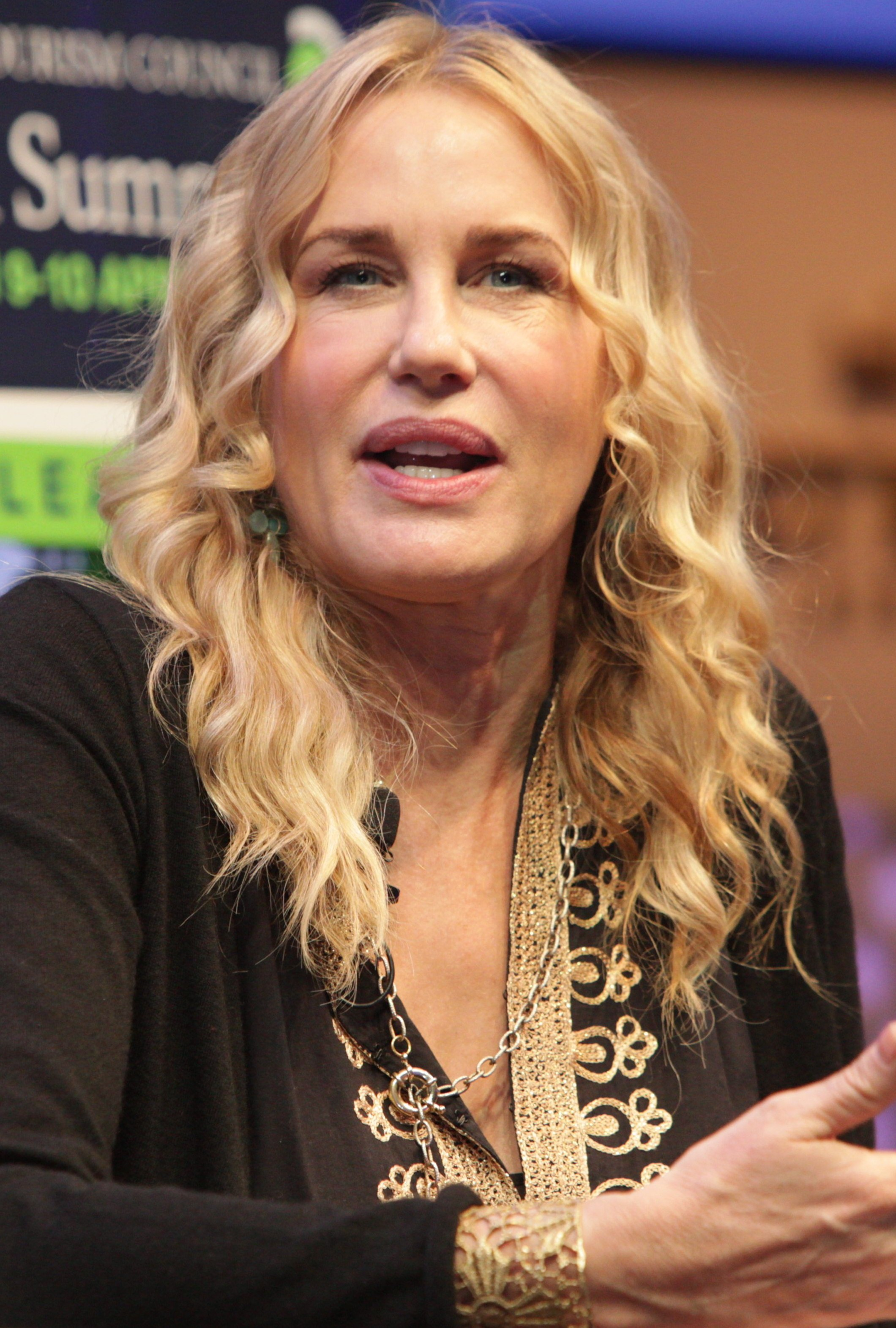 Daryl Hannah, actress and activist.